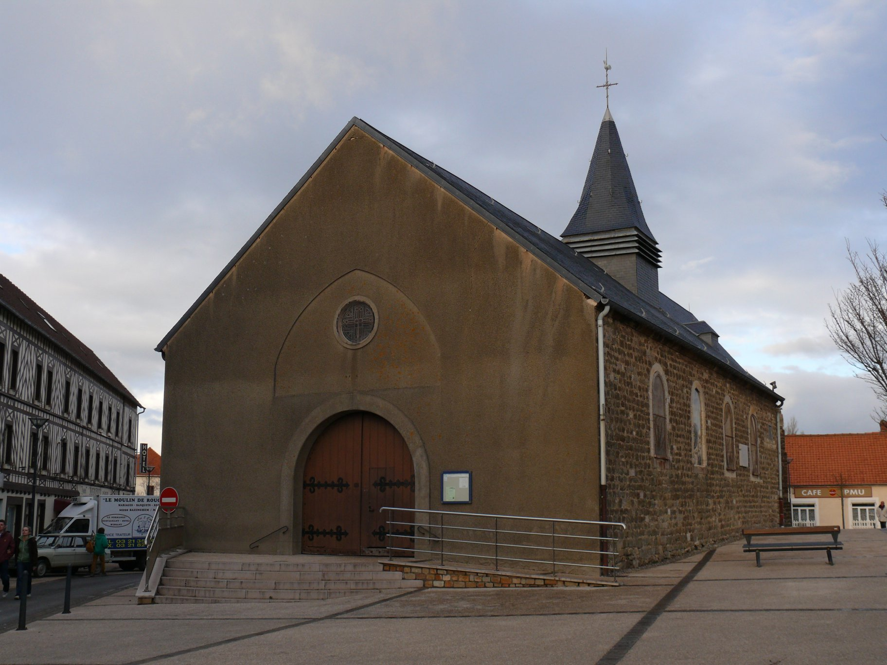 Saint-Nicolas' church of Wissant (Pas-de-Calais, France).